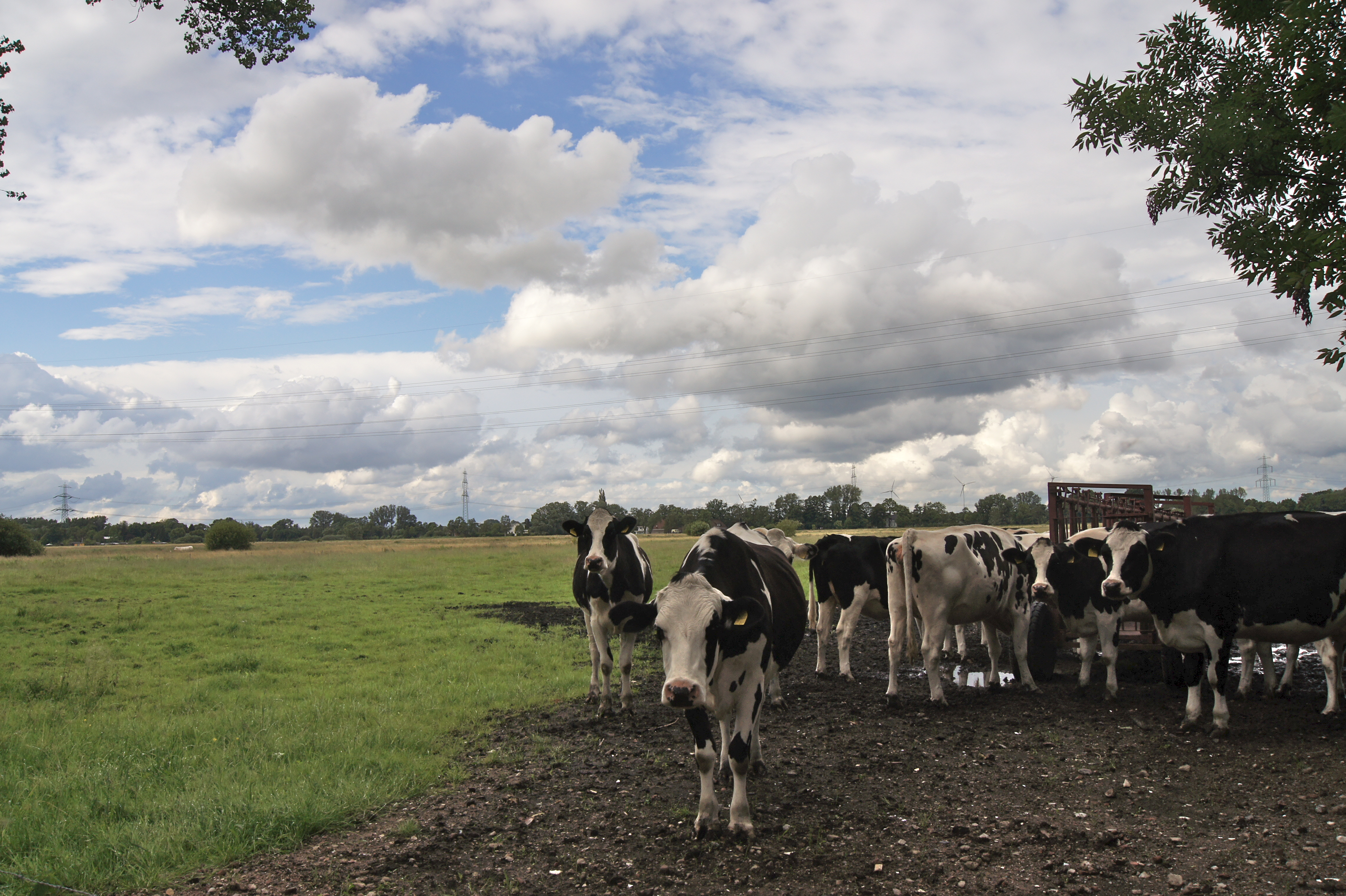 Hamburg (Gut Moor), Germany: Cows in the Meadows of the Kanzlerhof